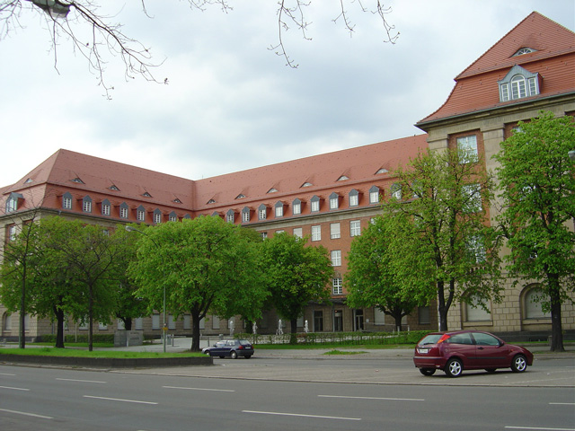 The Berlin headquarters of the Siemens Group, Siemensstadt, Berlin, Germany